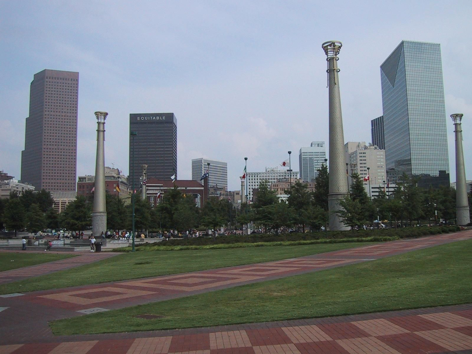 Image title: Centenial olympic park downtown Atlanta Image from Public domain images website